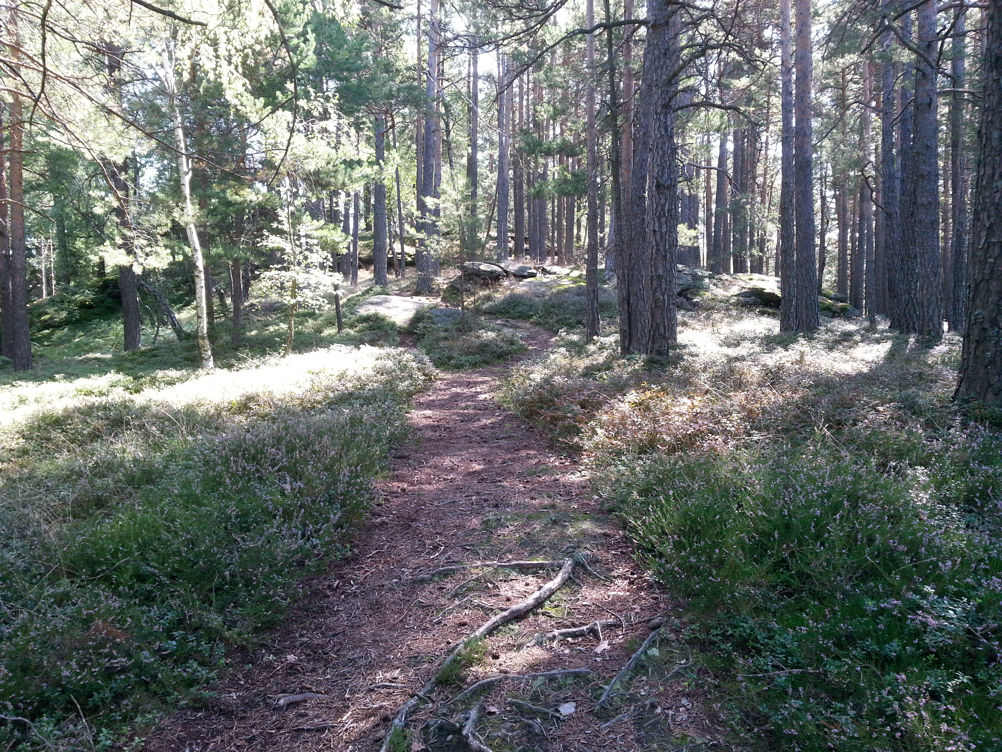 Neolithic settlement on the top of the Wartenstein, Styria